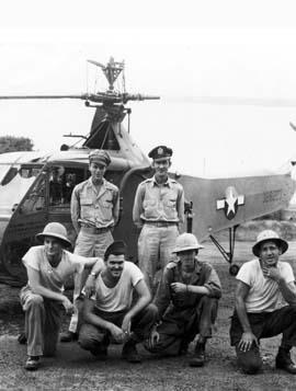 The USAAF team that made the first helicopter MEDEVAC mission in the history flying over the Japanese lines in Burma on 25-26 April 1944. Standing on the left in front of Sikorsky YR-4B, the pilot Lt. Carter Harmon.